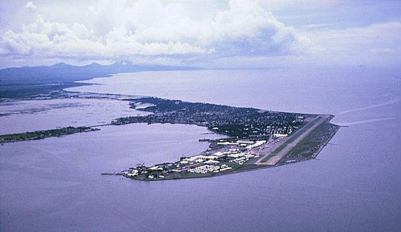 An aerial view of the Cavite Peninsula (circa 1963-1966) in Manila Bay, Philippines with the U.S. Naval Station Sangley Point in the foreground and Cavite City behind the base. Bacoor Bay is the body of water at the leftmost center of the picture near the mainland and Cañacao Bay is to the left of the naval base.